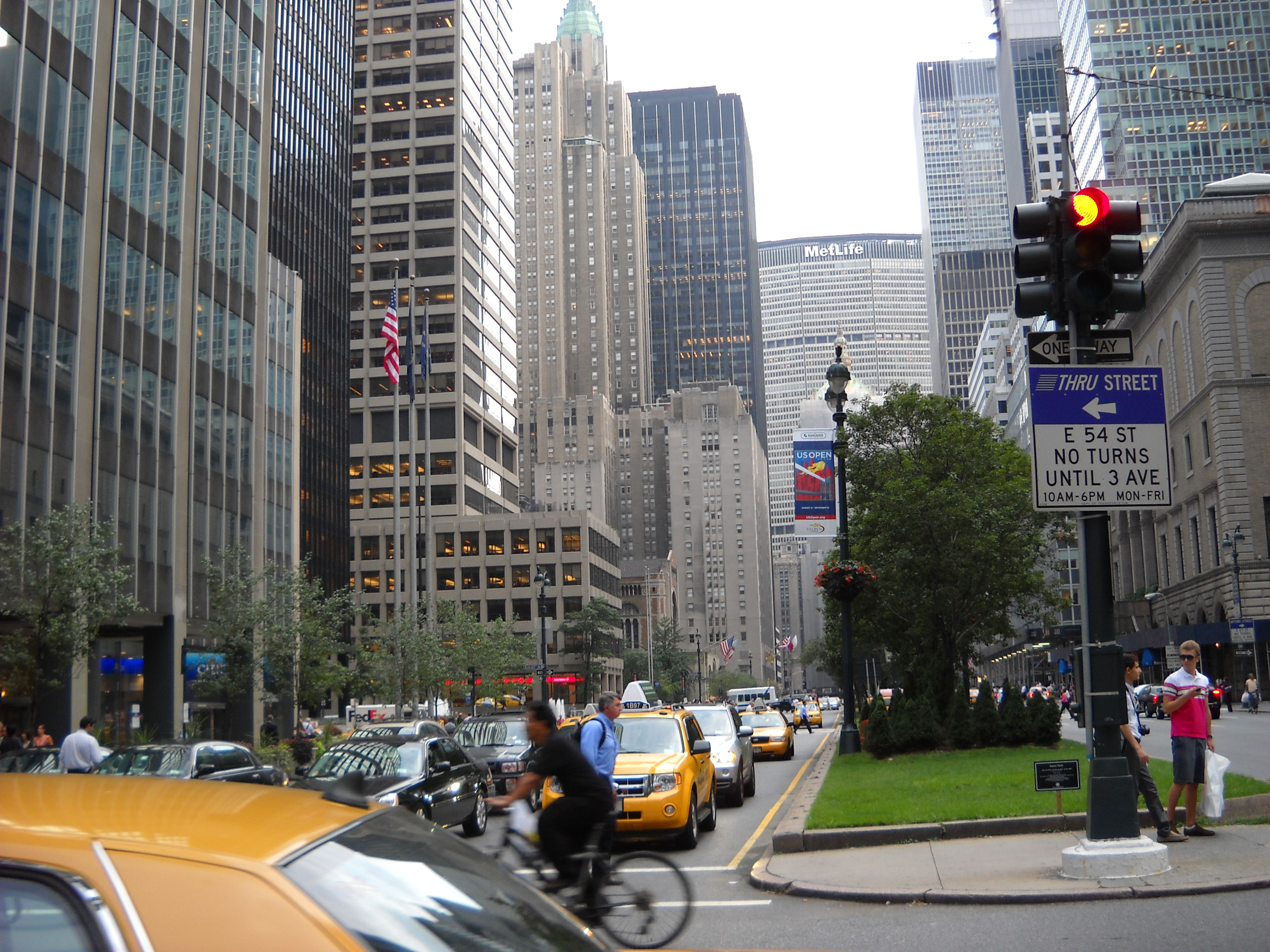 Park Ave, 2009, New York